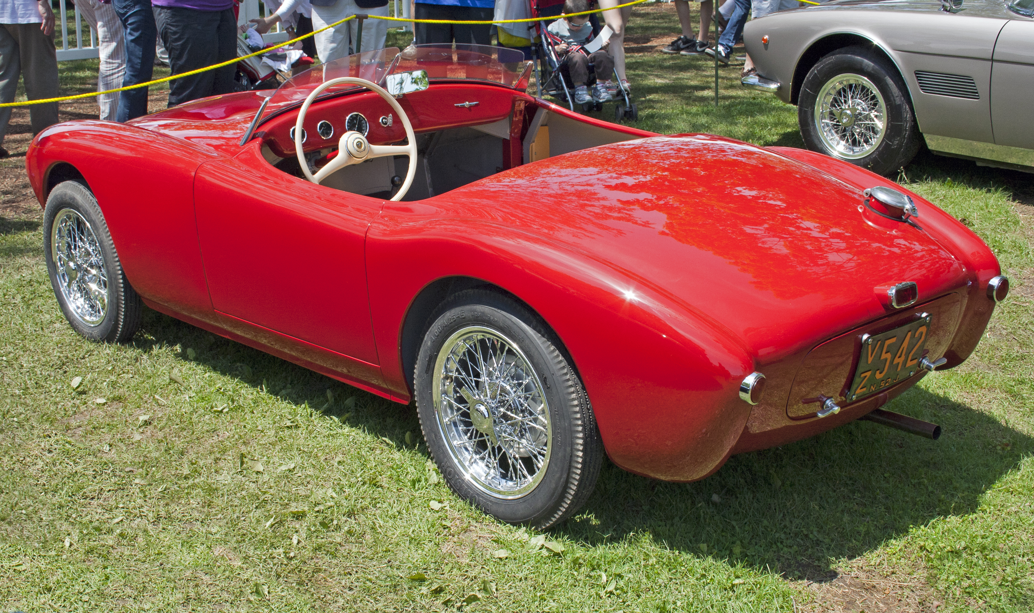 1952 Siata 300BC Barchetta Sport Spider (Crosley-engined) at the 2012 Greenwich Concours d'Elegance.